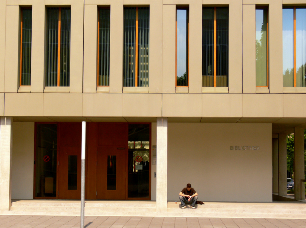 what time is it?